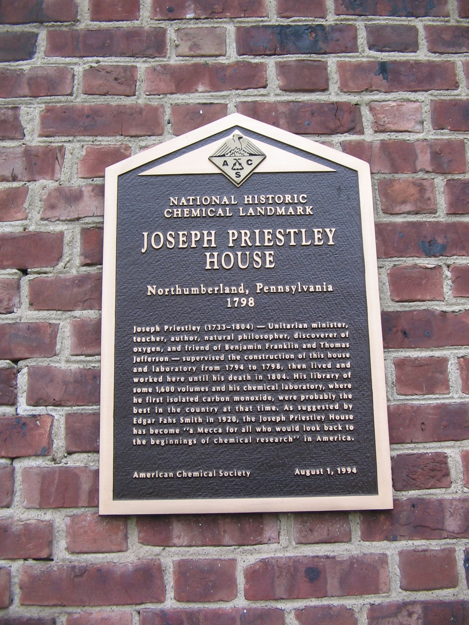 Plaque commemorating the designation as a National Historic Chemical Landmark by the American Chemical Society (ACS), on the Pond Museum at the Joseph Priestley House in Northumberland, Northumberland County, Pennsylvania, USA.